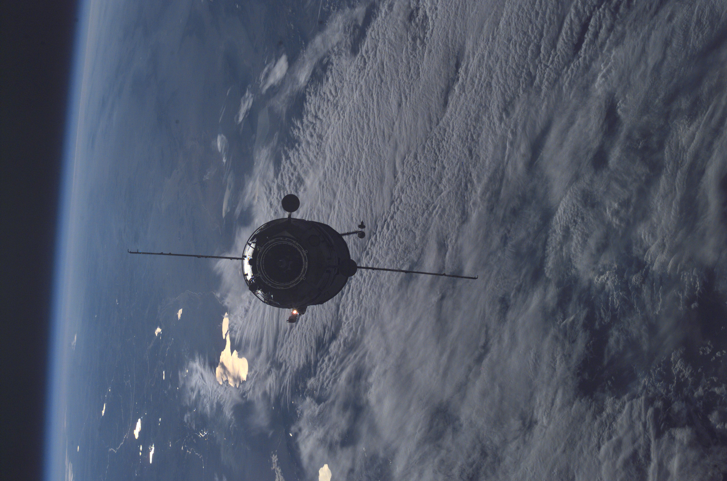 Enroute for docking, the 16-foot-long Russian docking compartment Pirs (the Russian word for pier) approaches the International Space Station (ISS). Pirs will provide a docking port for future Russian Soyuz or Progress craft, as well as an airlock for extravehicular activities. Pirs was launched September 14, 2001 from Baikonur in Russia.